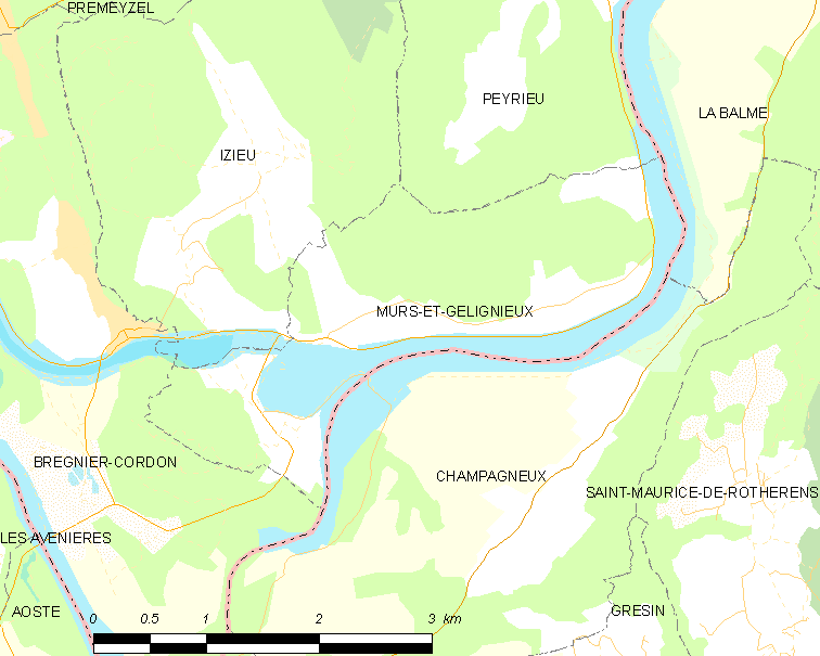 Map of French commune: Murs-et-Gélignieux Map commune FR insee code 01268.png